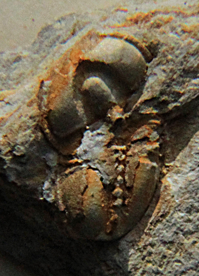 An Eodiscus punctatus trilobite, Order Agnostida, Family Eodiscidae, 8mm, cephalon disarticulated from the thoracopygidium, collected from the Plutonites hicksi-zone, Nine Wells Shale, Wales, from the Middle Cambrian (Menevia).